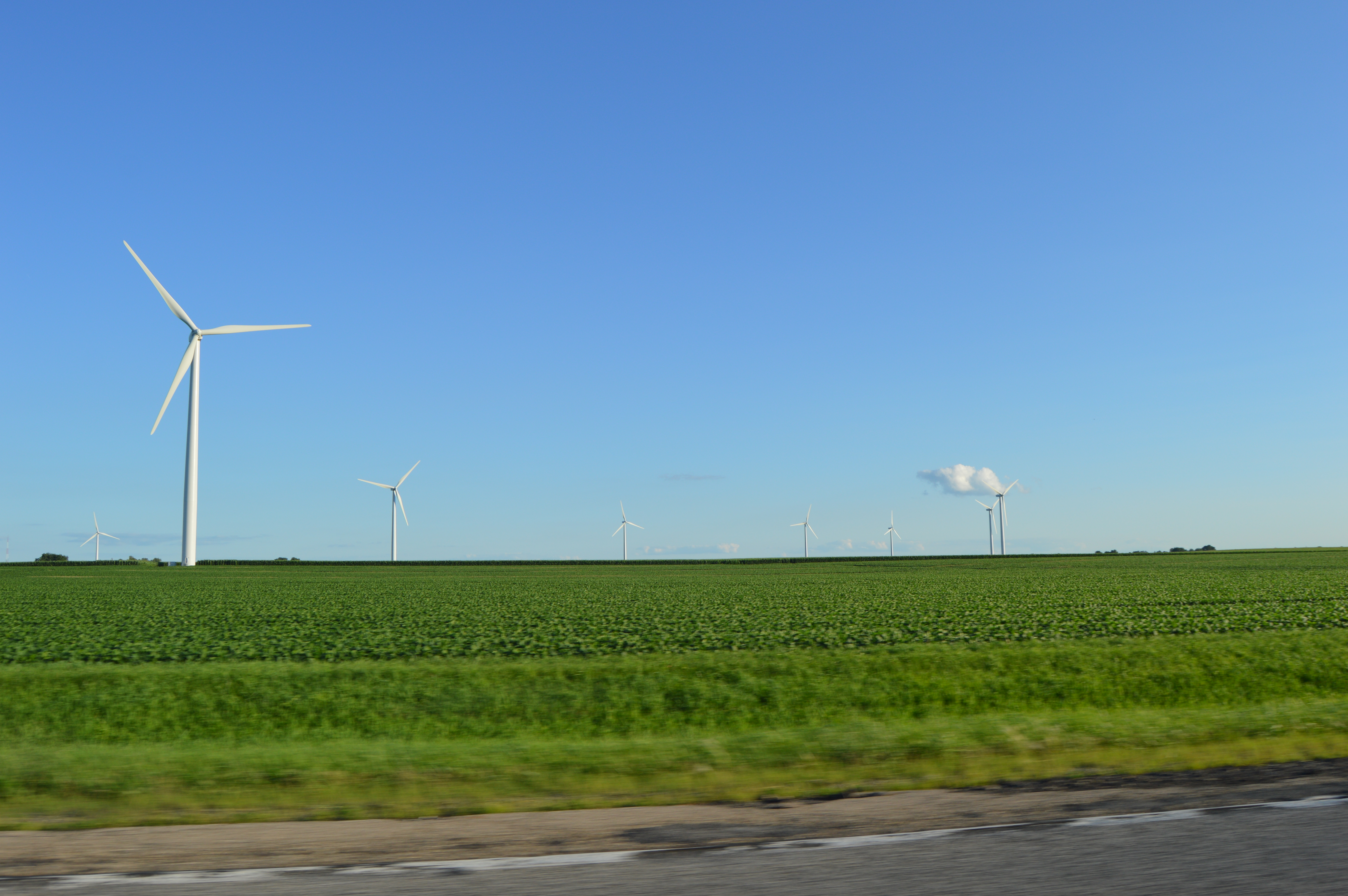 A wind farm in northeastern Orvil Township, Logan County, Illinois, United States. Photo looks south from U.S. Route 136 approximately three miles east of Interstate 155.